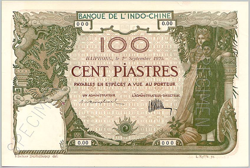 French Indochina 100 Piastres 1925, Haiphong branch, Specimen